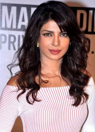 Priyanka Chopra at the launch of UNICEF's mobile application.